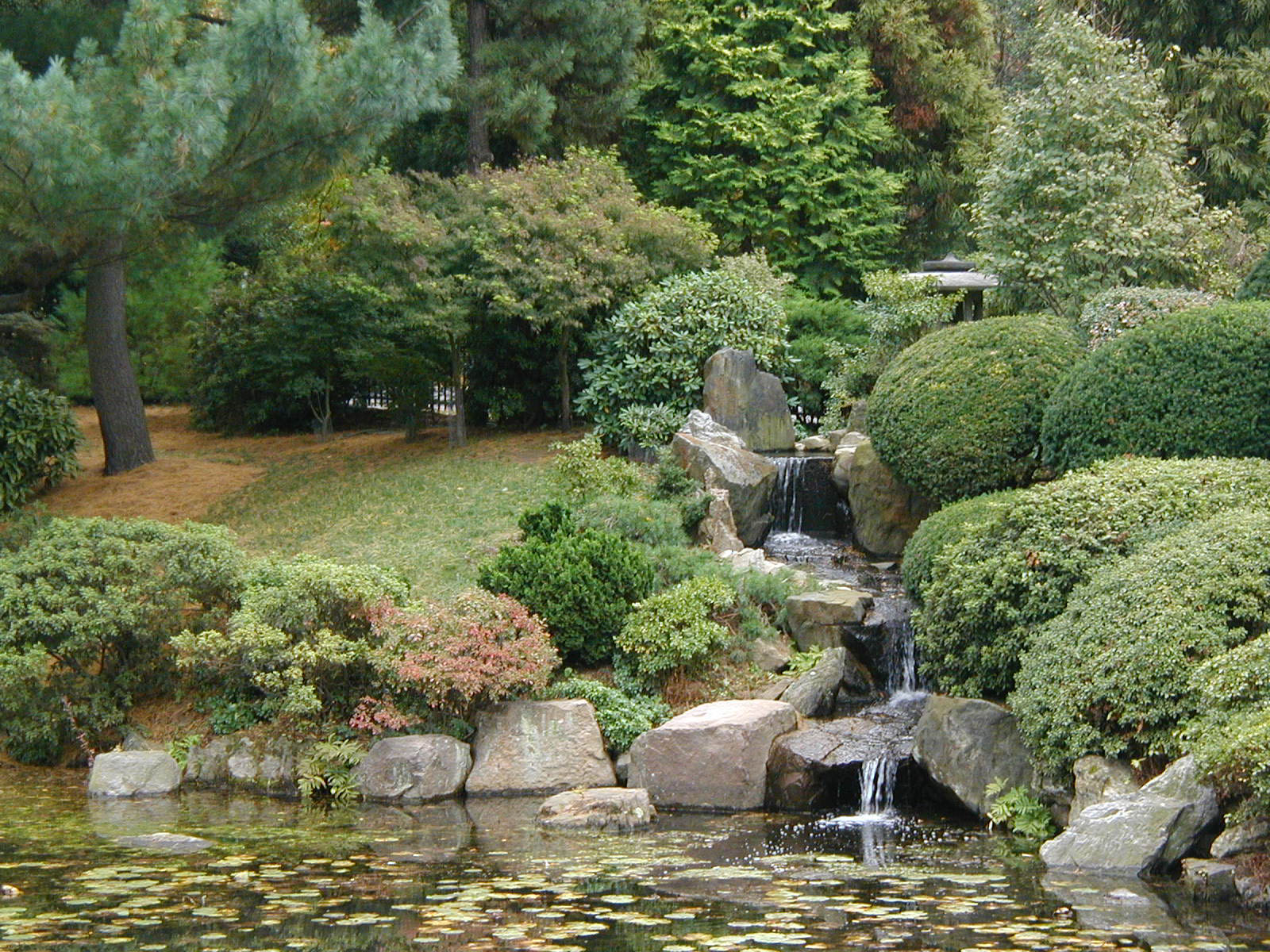 View of waterfall at Shofuso (The Japanese House and Garden) in Fairmount Park, Philadelphia.